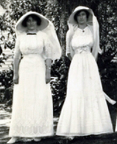 Nona and Agnes (Daisy) Hay, step-sisters of Alexander Hay, owner of Coolangatta Estate on the Shoalhaven River